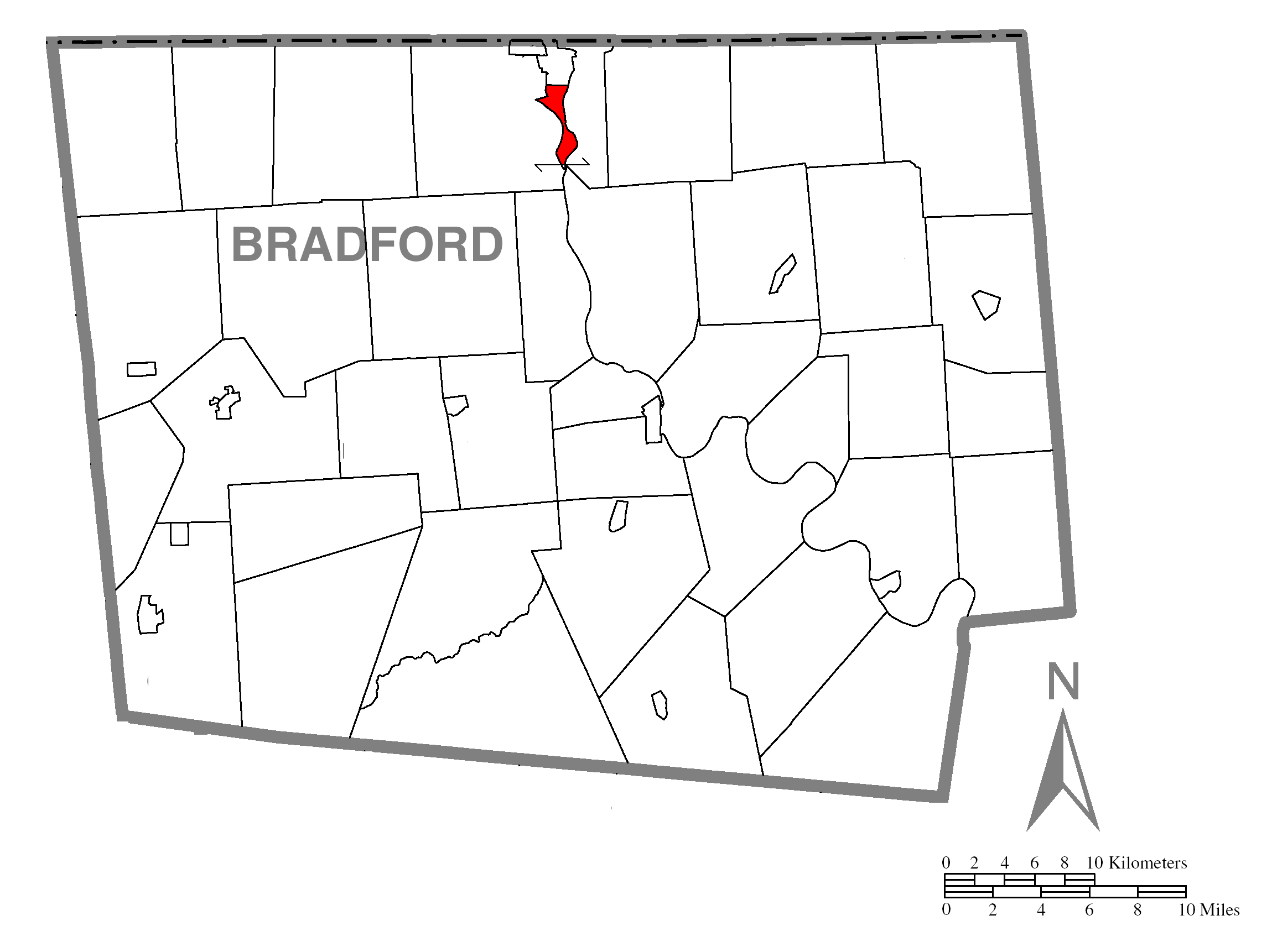 A map of Bradford County showing Athens, Pennsylvania (alternate) highlighted on the map.